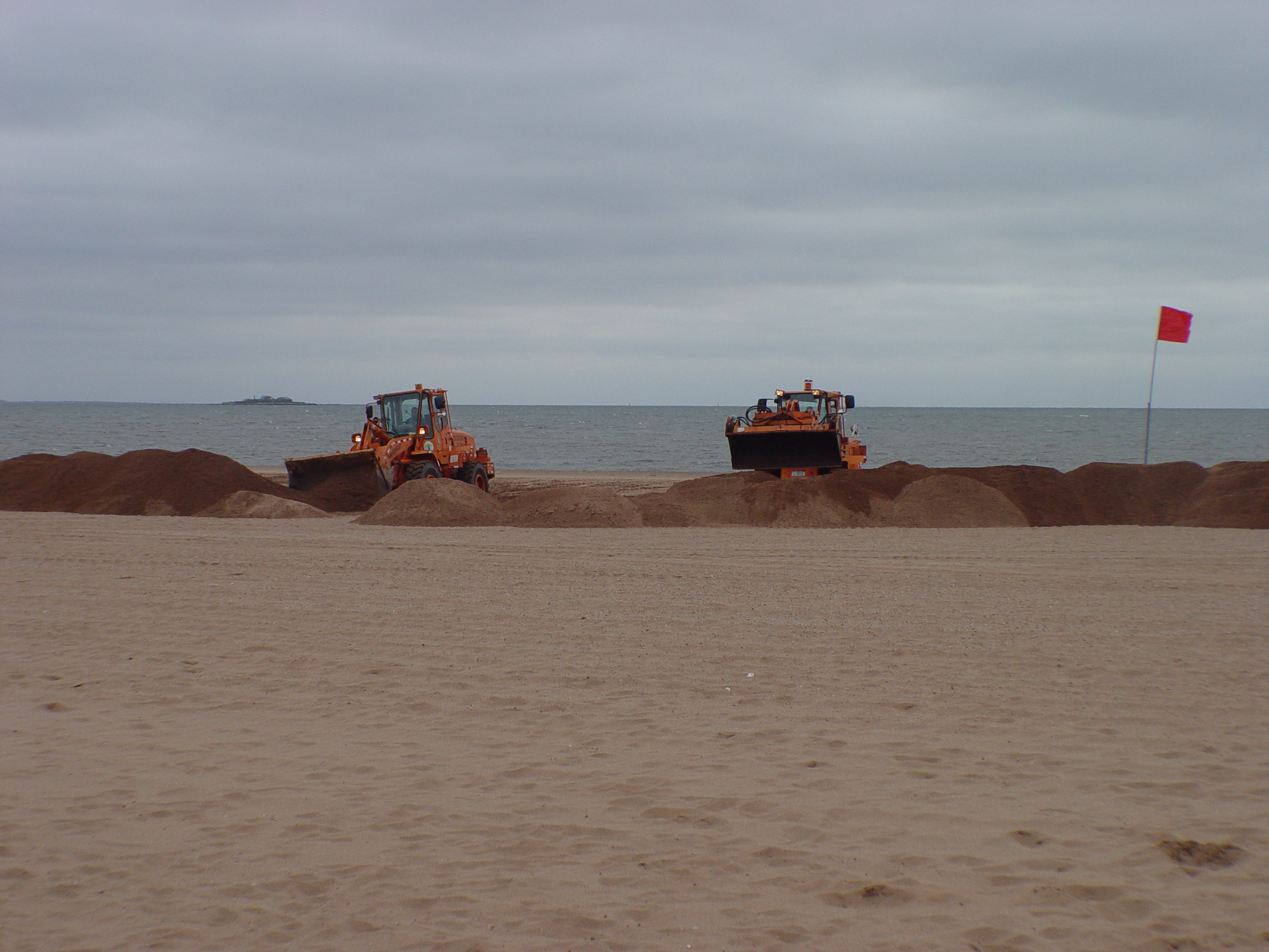 Before Hurricane Sandy MidLand Beach Staten Island